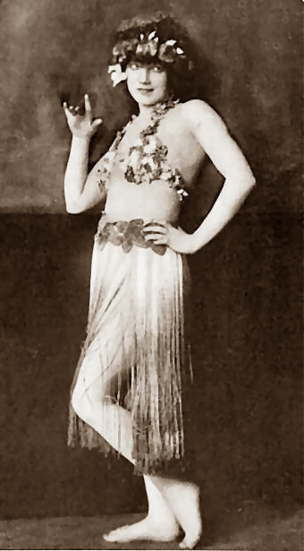 Dancer Gilda Gray